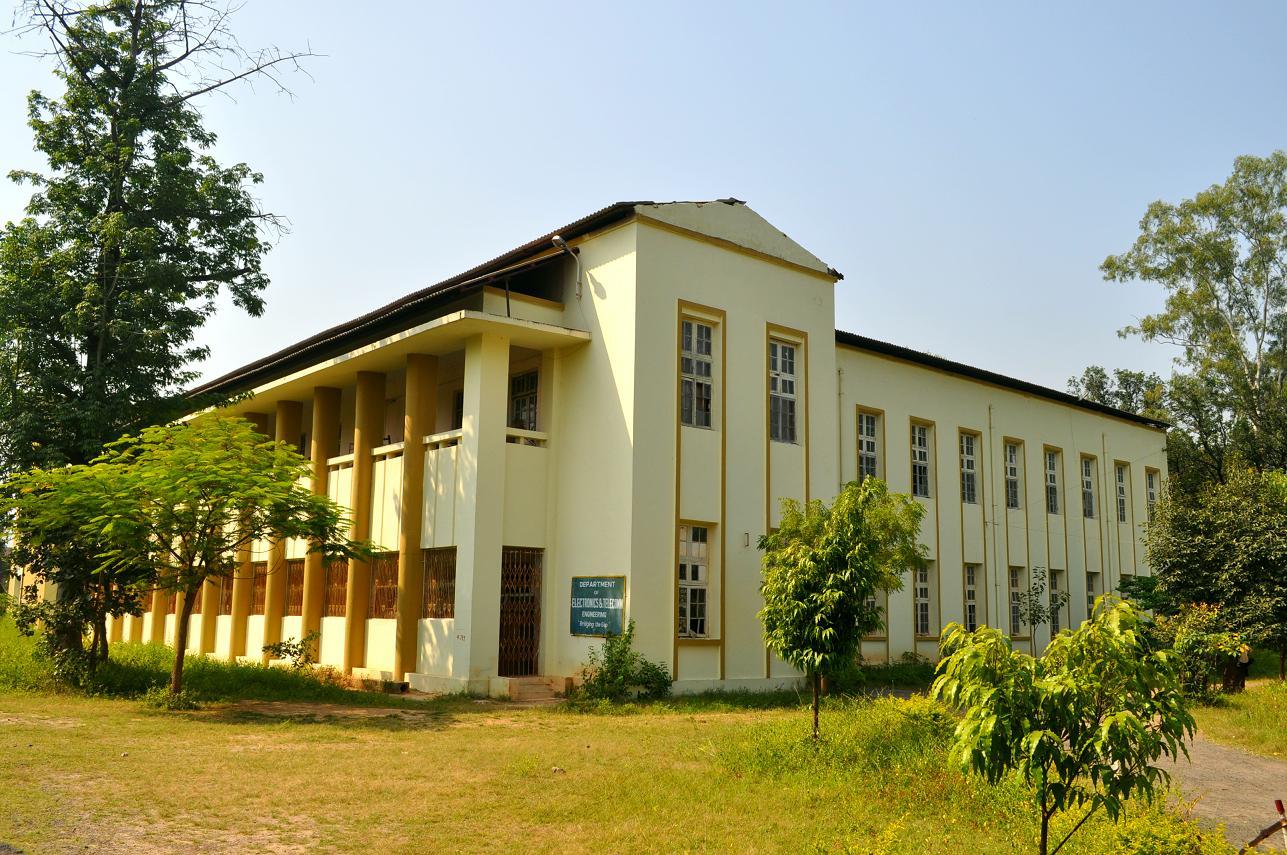 Jabalpur Engineering College (JEC)'s E&TC Department.